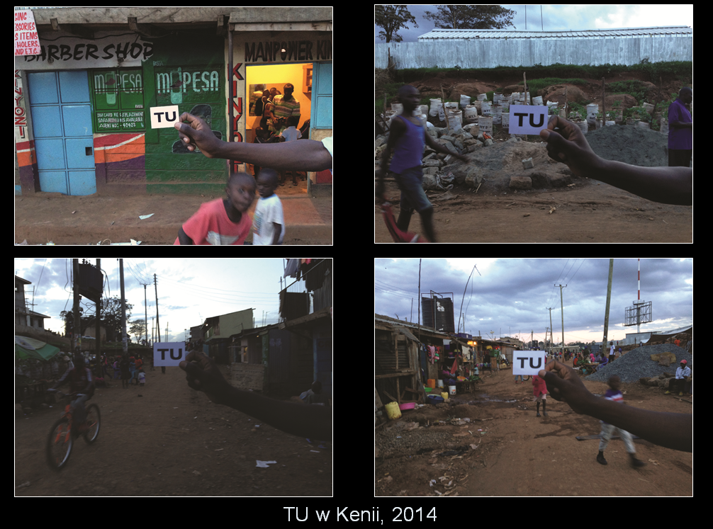 A cycle of photographs created by Romuald Kutera.